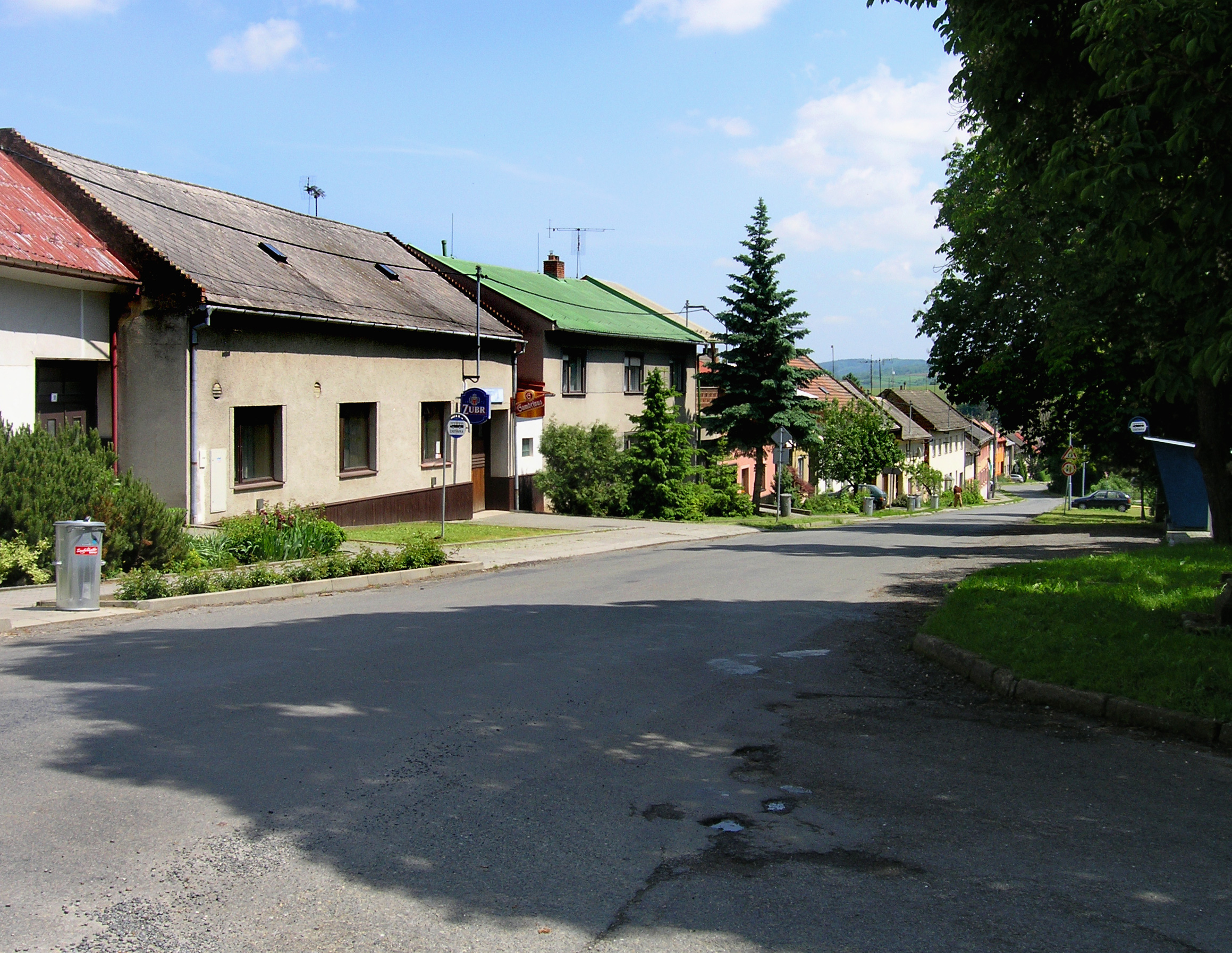 Road No 428 in Troubky, part of Troubky-Zdislavice village, Czech Republic